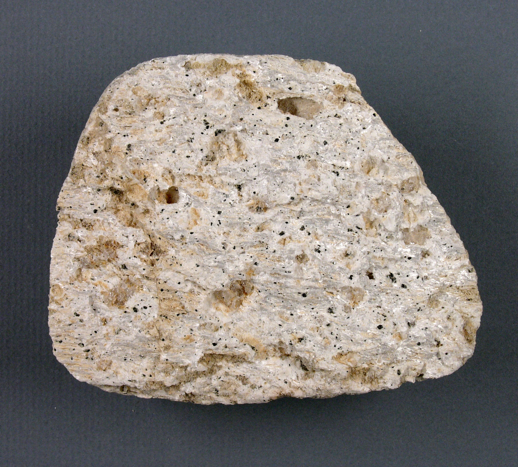 Pumice from the island of Kos, Greece, Mediterranean Sea. Contains mica as biotite (black spots), muscovite and zeolite (light-colored crystals)